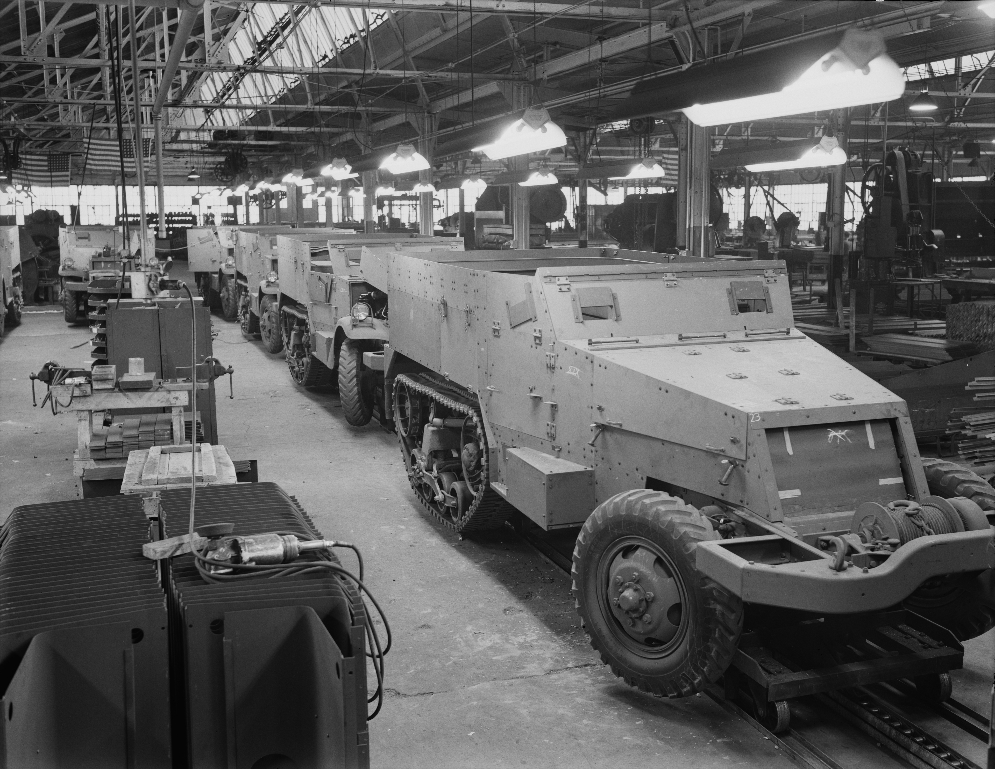 Partly finished halftrac scout cars travel along a moving assembly line in a plant converted from the manufacture of safes and locks. The bodies are made in this plant and mounted on chassis produced in a converted automobile plant. Diebold Safe and Lock Company, Canton, Ohio.